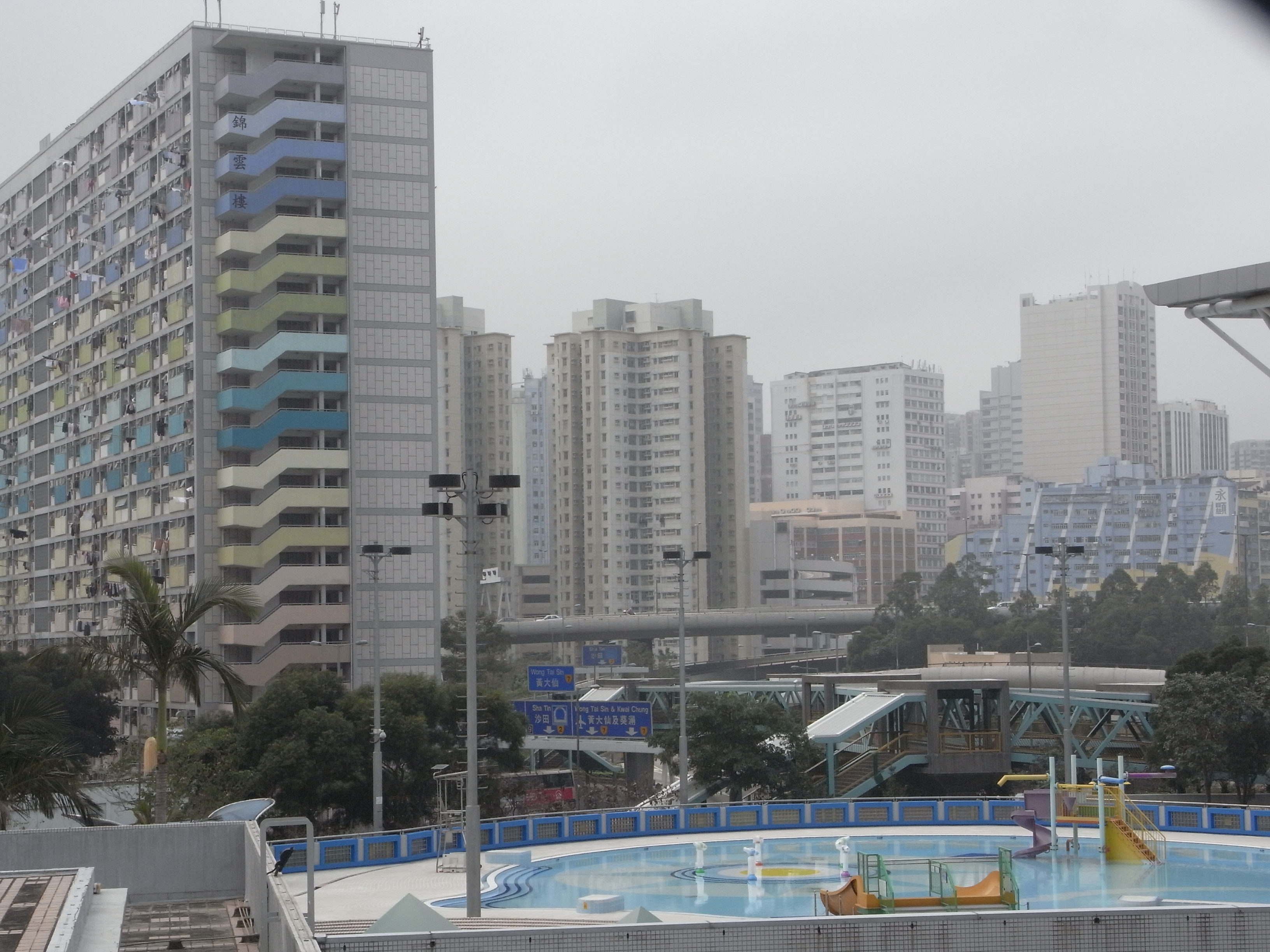 zh:2010年 斧山道嬉水池 & 背景是zh:彩虹邨